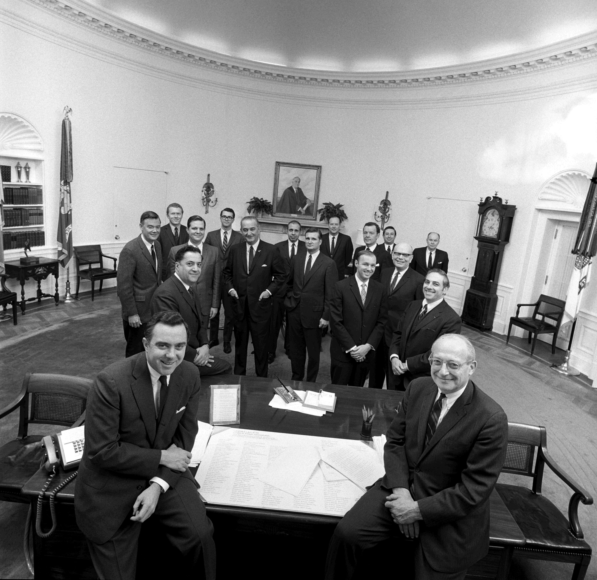 President Lyndon B. Johnson posing with members of his staff during his final weeks in office Front row seated L-R: Joe Califano, Walt Rostow. Standing 1st row L-R: Mike Manatos, Jim Jones, Ernest Goldstein. 2nd row: Barefoot Sanders, Larry Temple, President Lyndon B. Johnson, DeVier Pierson, Charles Murphy. 3rd row: Bob Hardesty, Tom Johnson, Harry Middleton, George Christian, Harry McPherson, Larry Levinson, William Hopkins.